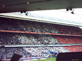 A card display tifo at Rangers' Ibrox Stadium